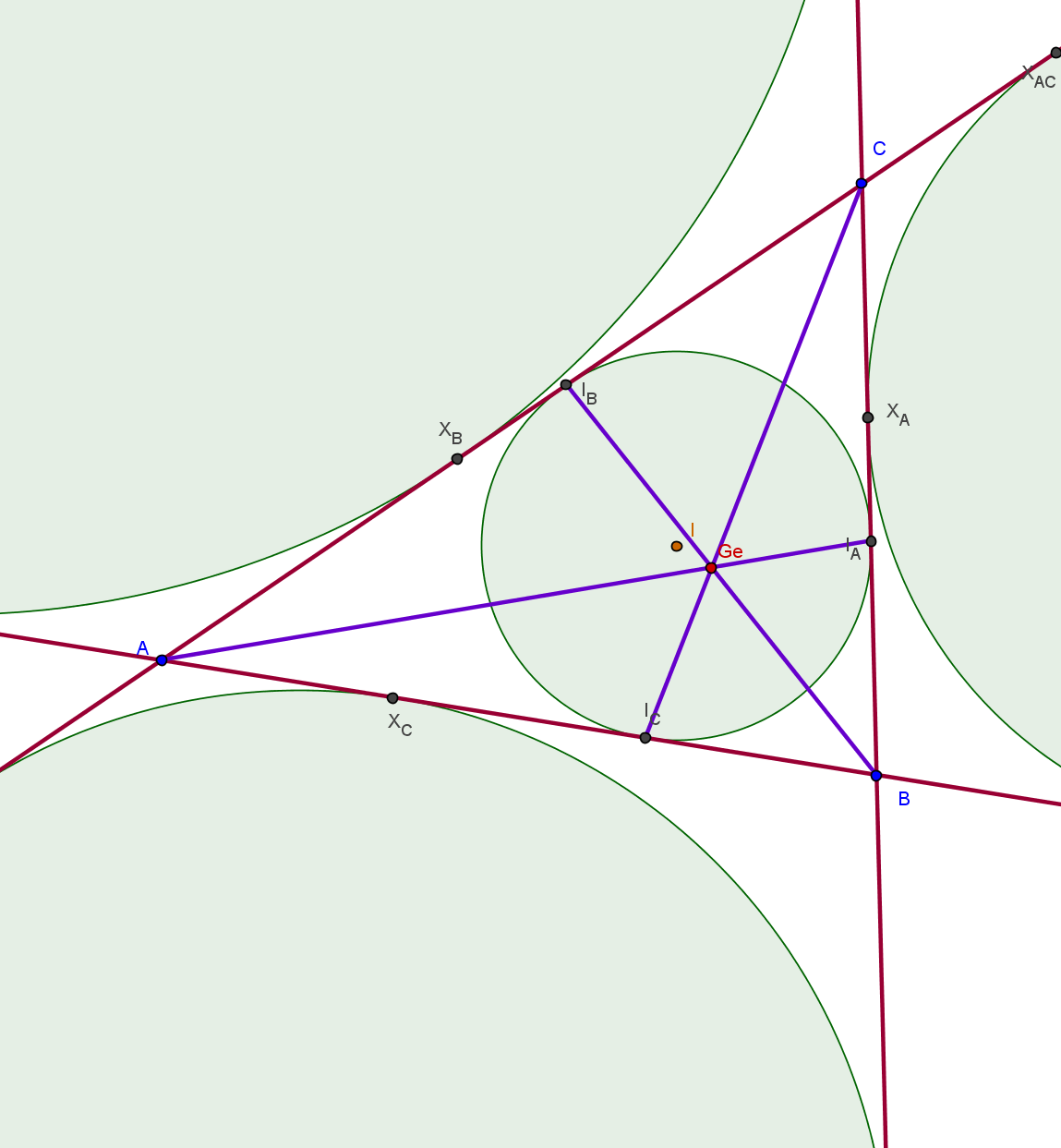 Gergonne point